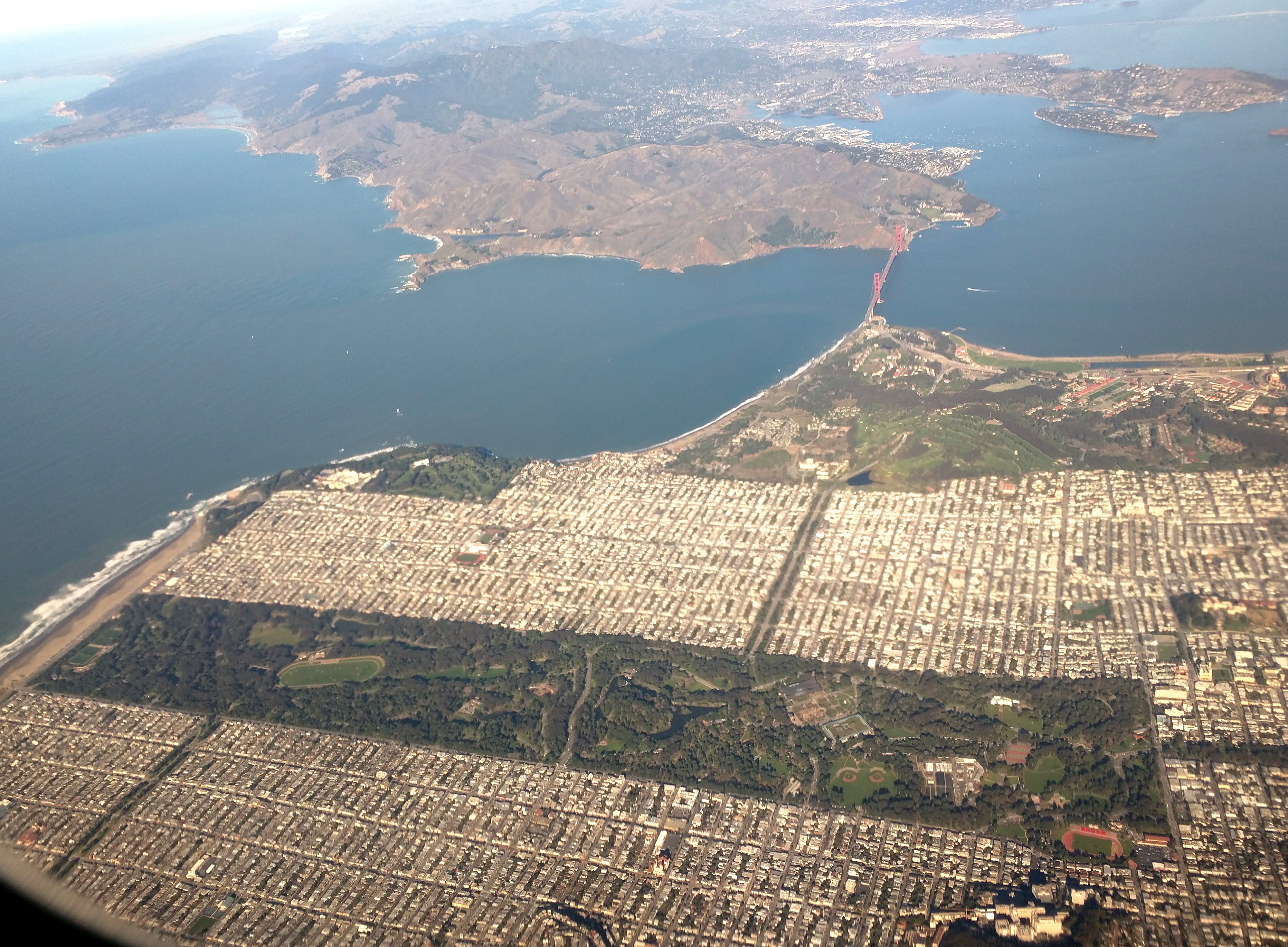 Golden Gate Park